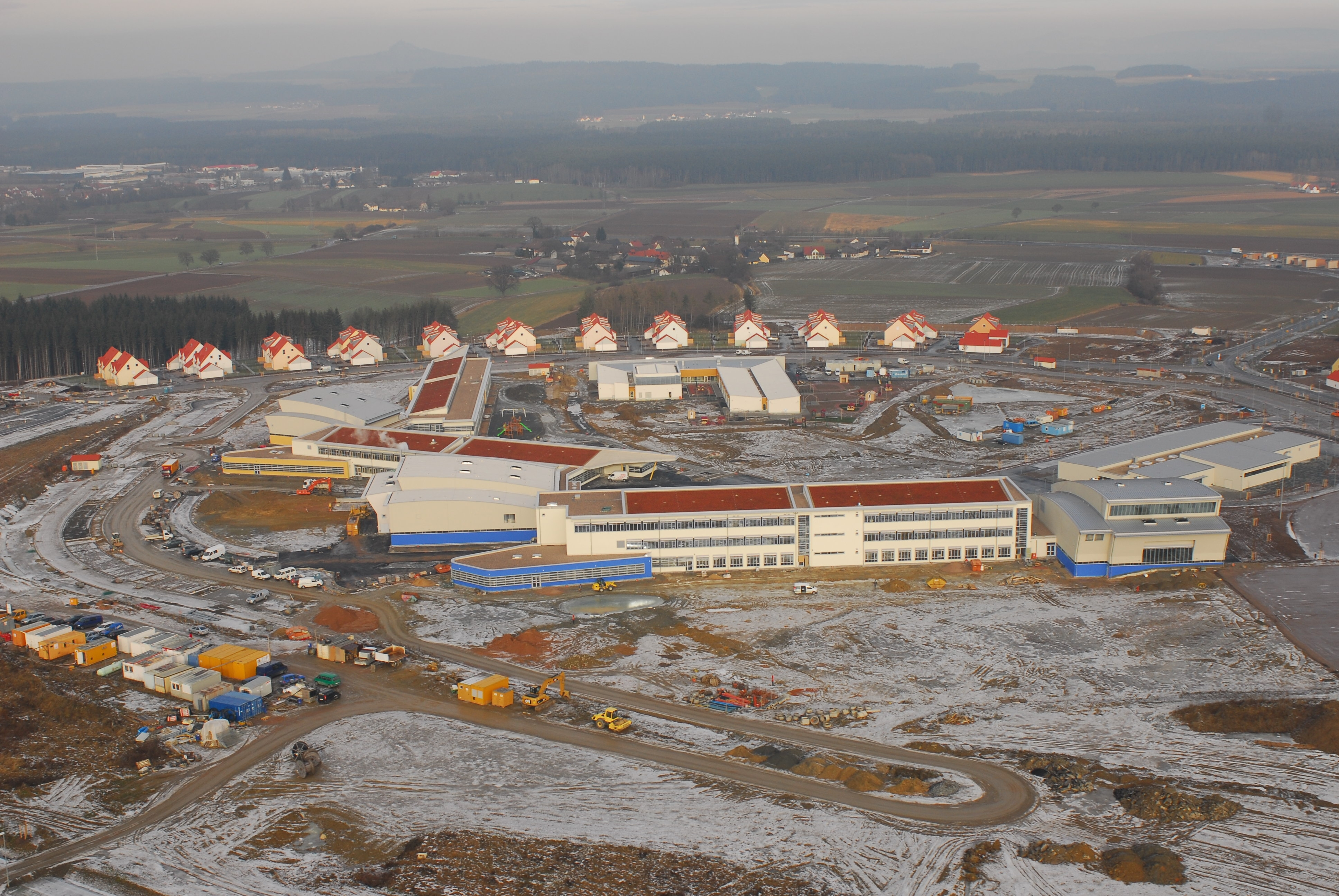 An aerial view shows the construction projects on the “MILCON Island” in the center of Grafenwoehr’s Netzaberg community in Germany, including a new child development center, youth services center, and an upcoming elementary and middle school and a new access control point.